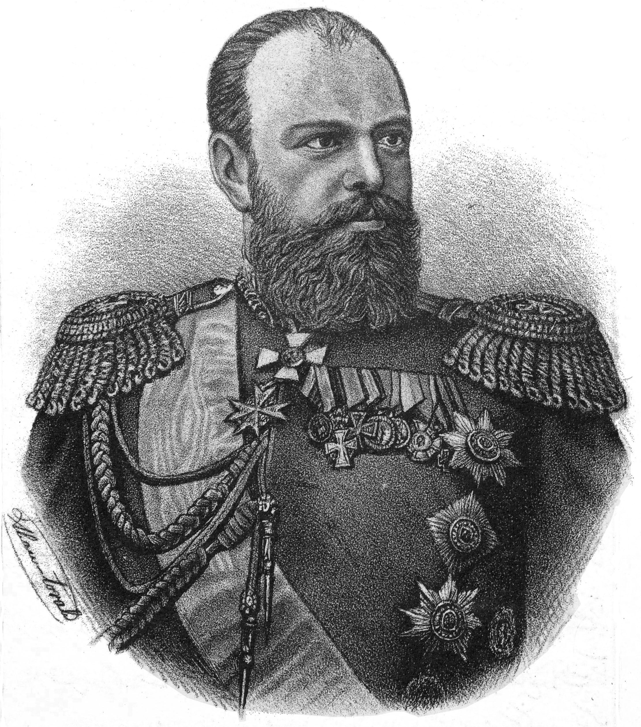 This sketch was printed in Sharaf monthly in Qajar Persia. This was written beneath it: "His majesty the mighty emperor of all Russian territories, Alexander III"